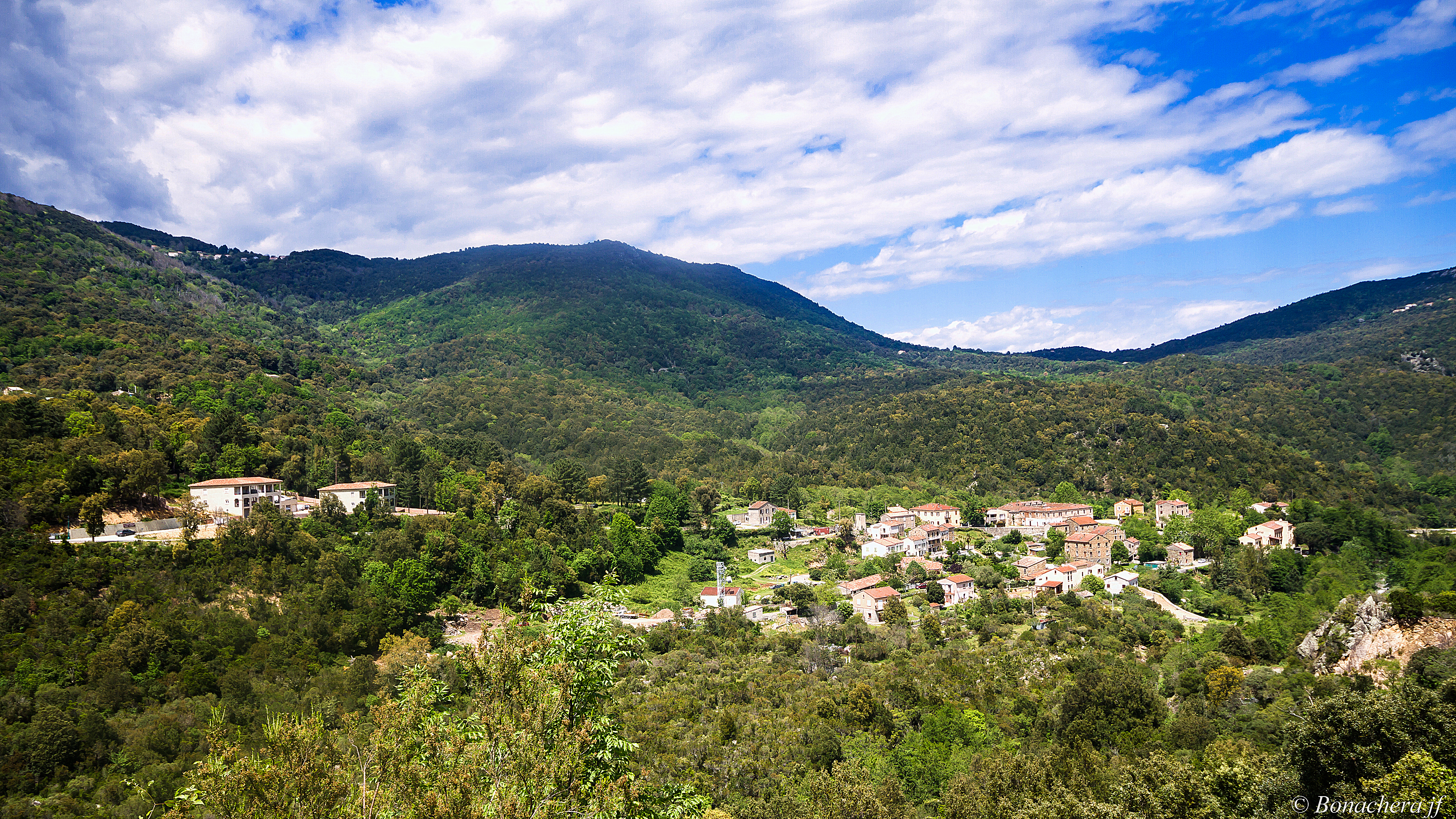 Pietrapola